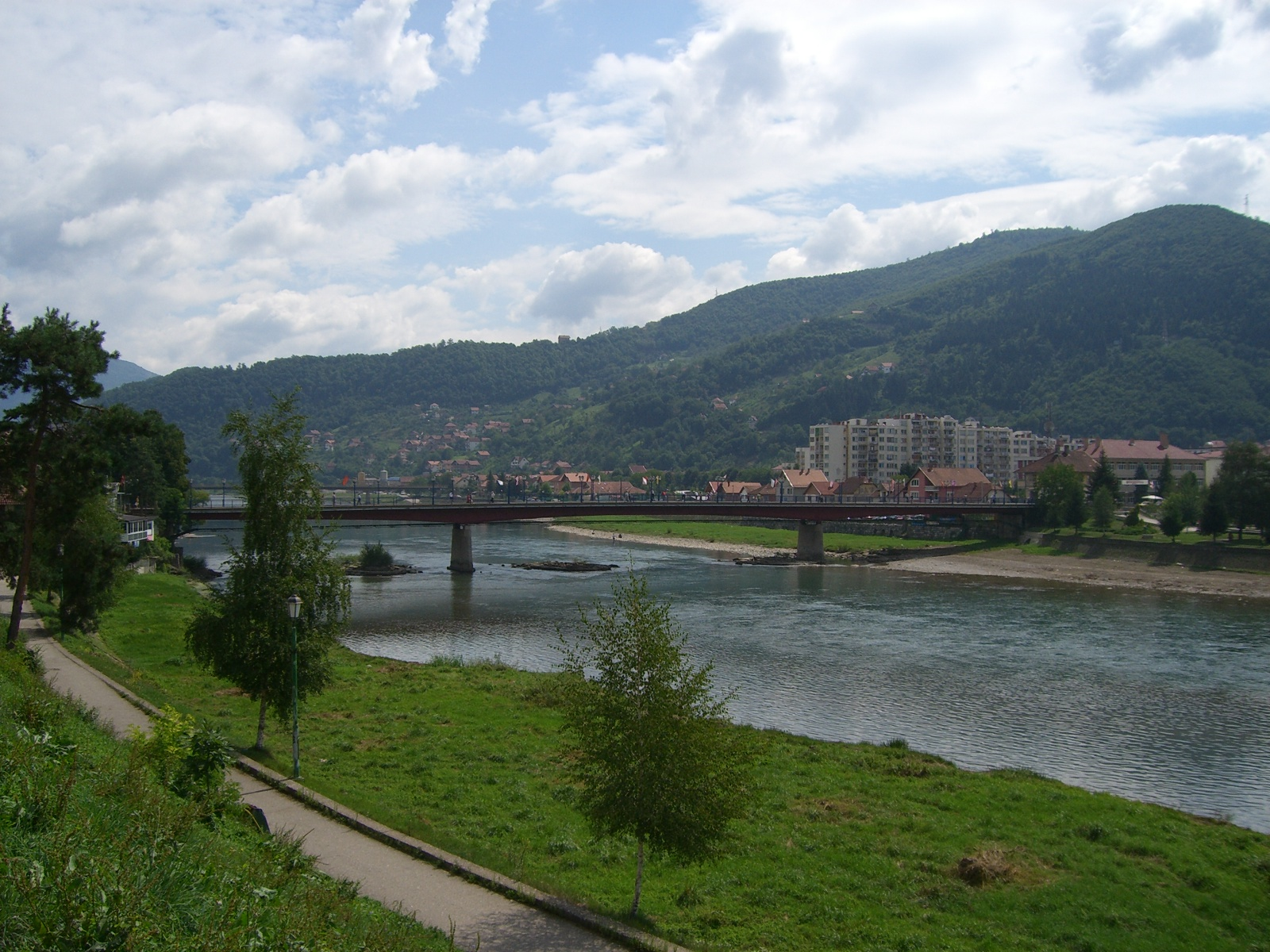 Gorazde. I did not dare to take pictures in this war-torn city. This is a view, back towards Gorazde after exiting towards Foca.